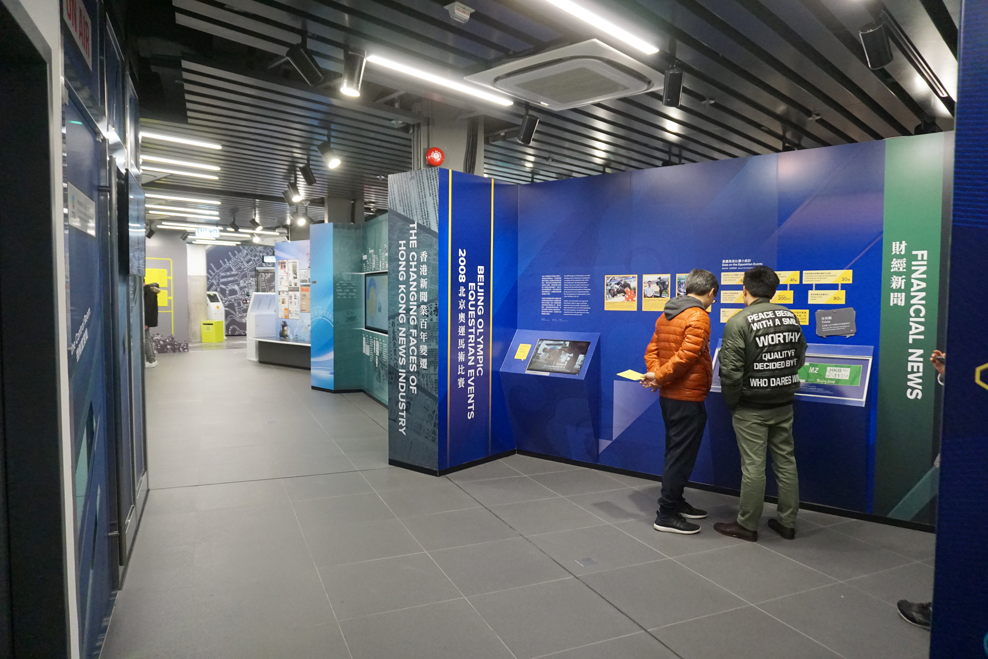 Hong Kong News-Expo in Central, Hong Kong.